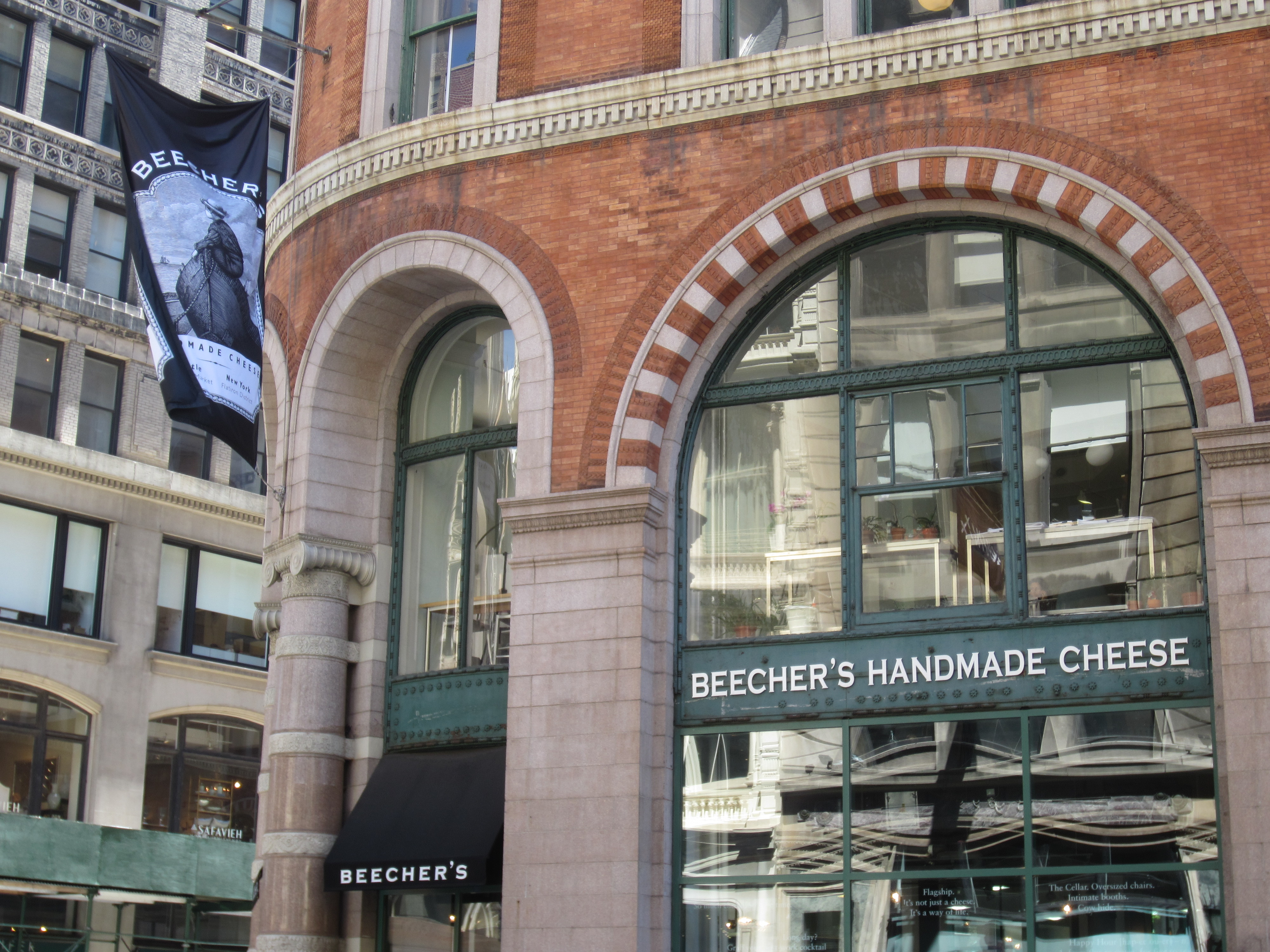 Beecher's Handmade Cheese, NYC (2014)